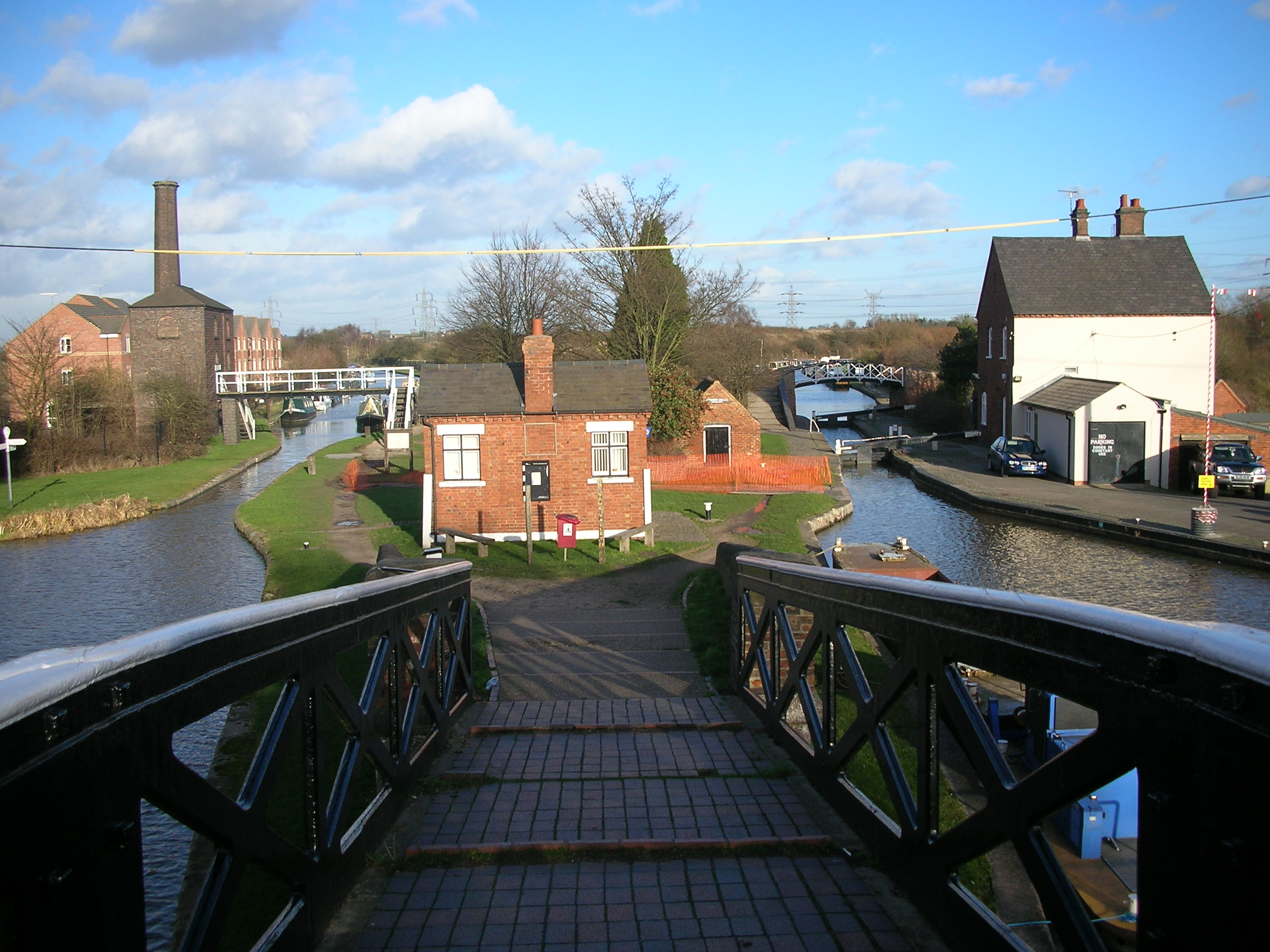 Hawkesbury Junction, northern start of the Oxford Canal (right), where it joins the Coventry Canal (left, behind and ahead), near Hawkesbury Village, England. Photograph looks away from Coventry.